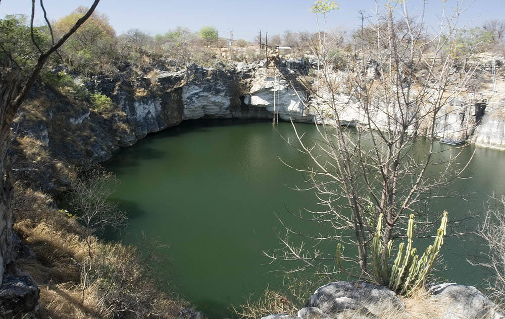 Otjikoto Lake near Tsumeb, Namibia